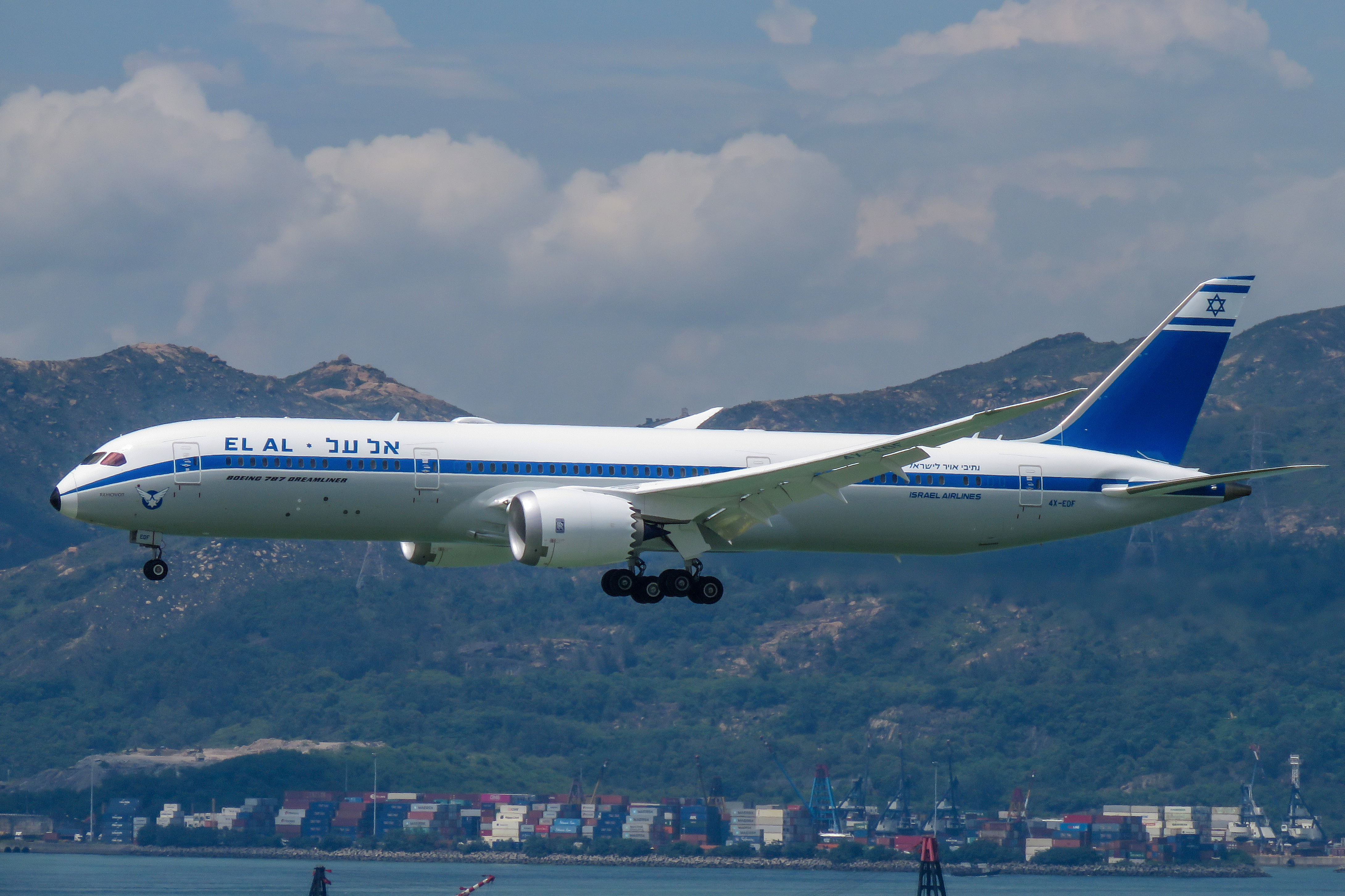 El Al 75 from Tel Aviv, using this retrojet. Some said this livery has something like CRH?